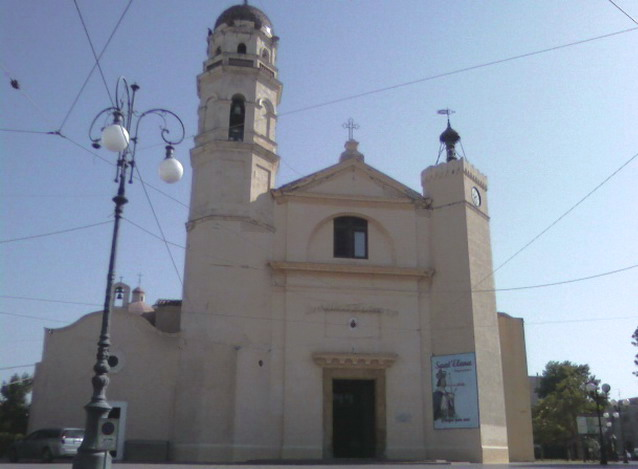 Church Sant'Elena in Quartu, Sardinia